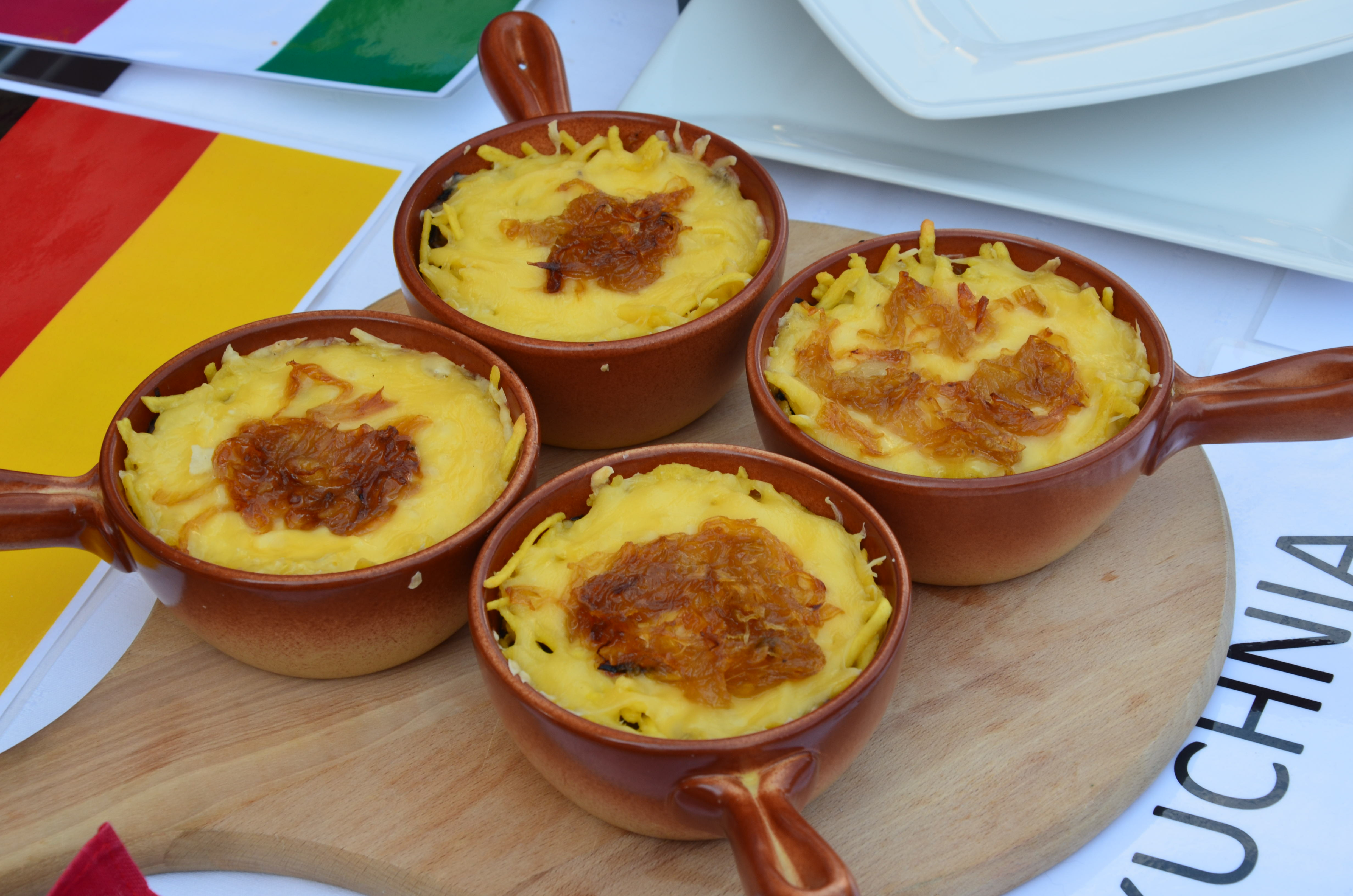 Foreign cuisines in Poland